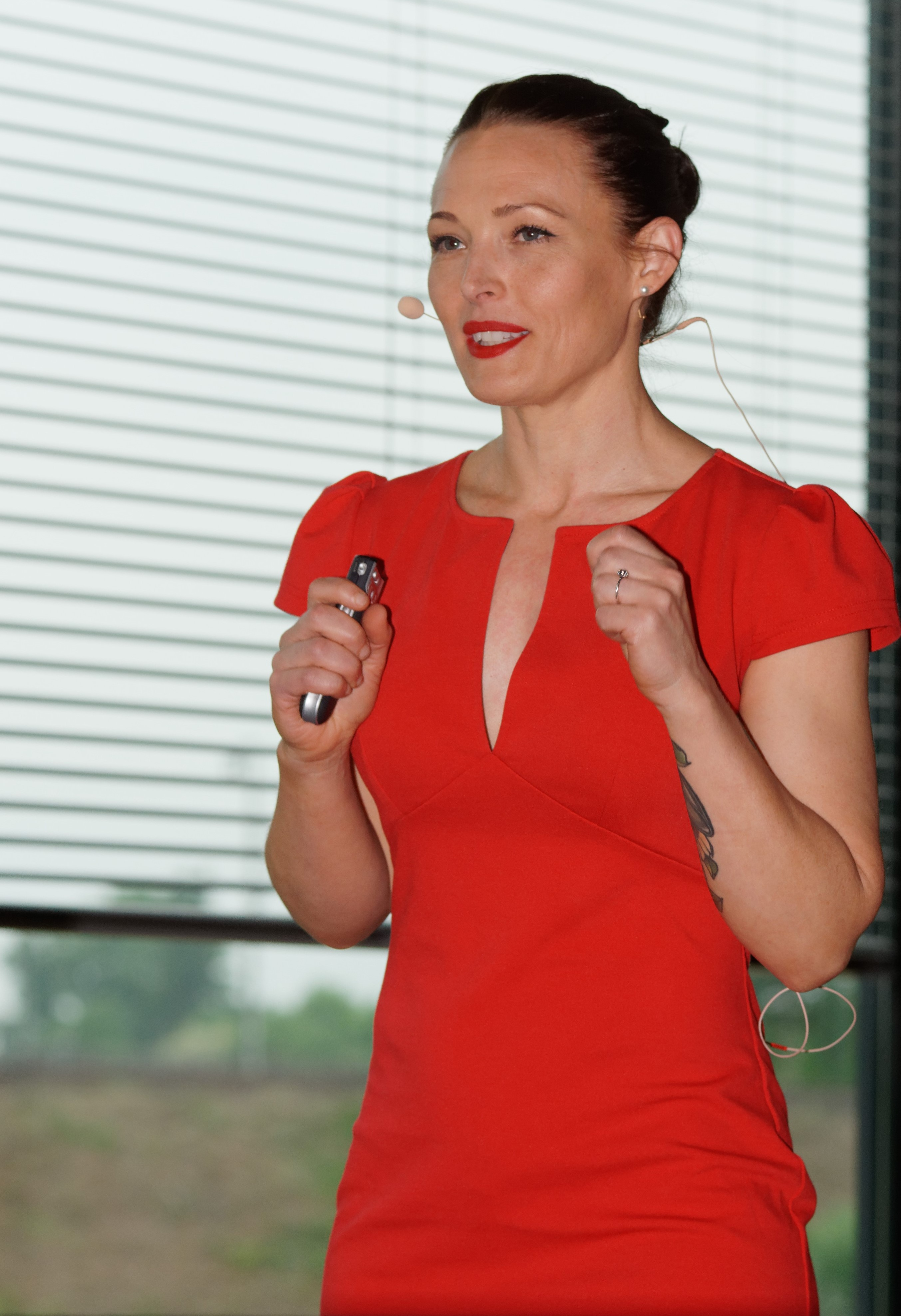 Dr. Anna Zakrisson presenting a speech at SkepKon 2018.